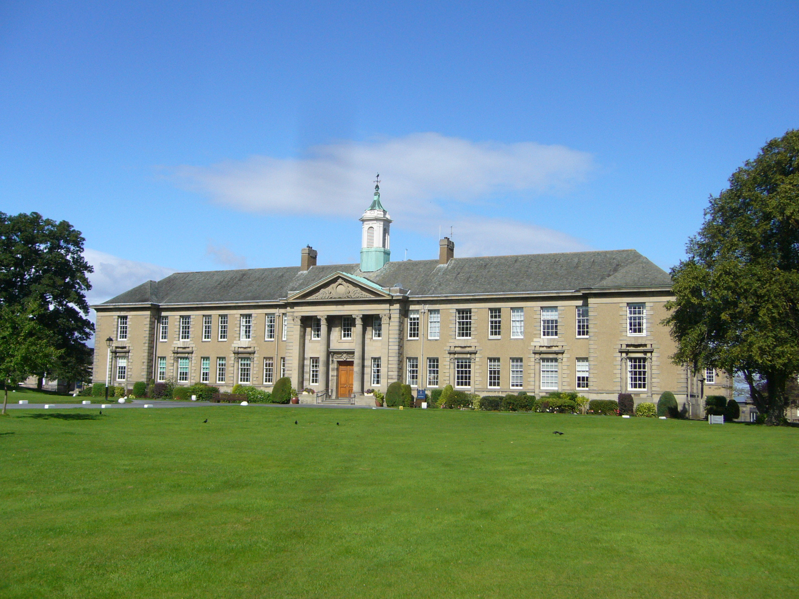 Merchiston Castle School, Edinburgh